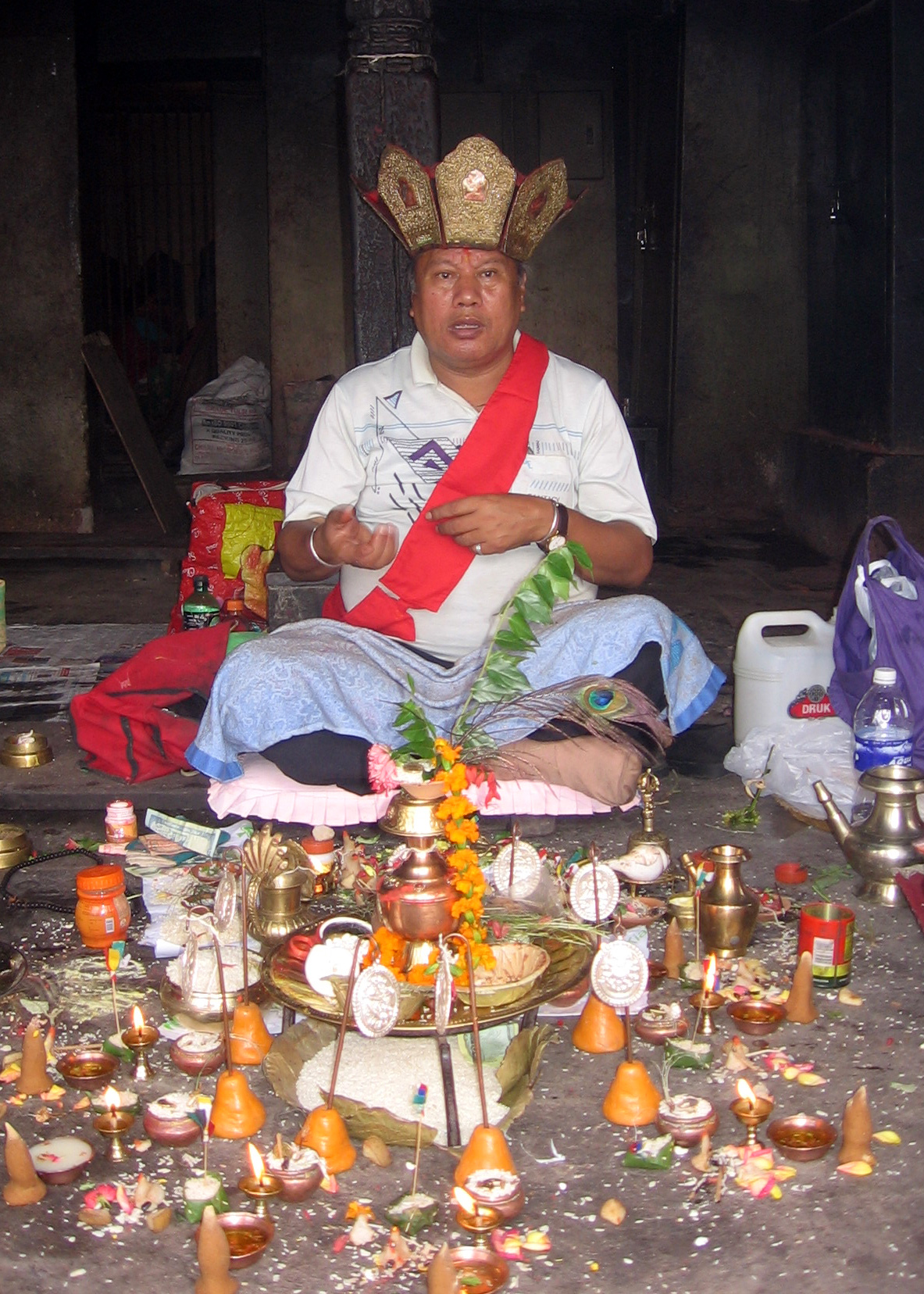 A Vajracharya Nepalese Buddhist priest conducting a religious ceremony at Swayambhu, Kathmandu. His name is Asta Gurju or that is what we commonly call him.